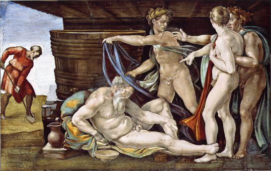 Ivresse_de_noe.jpg